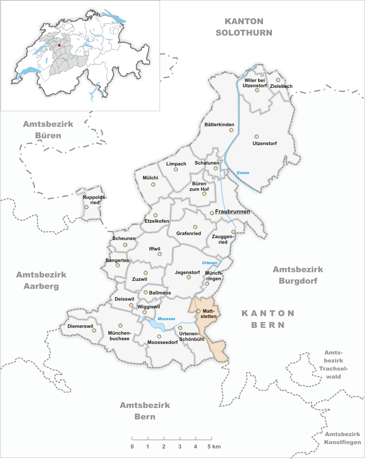 Municipality Mattstetten